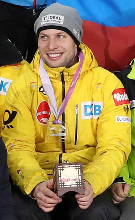 Nico Walther in Pyeongchang, IBSF World Cup 2016/17 finale